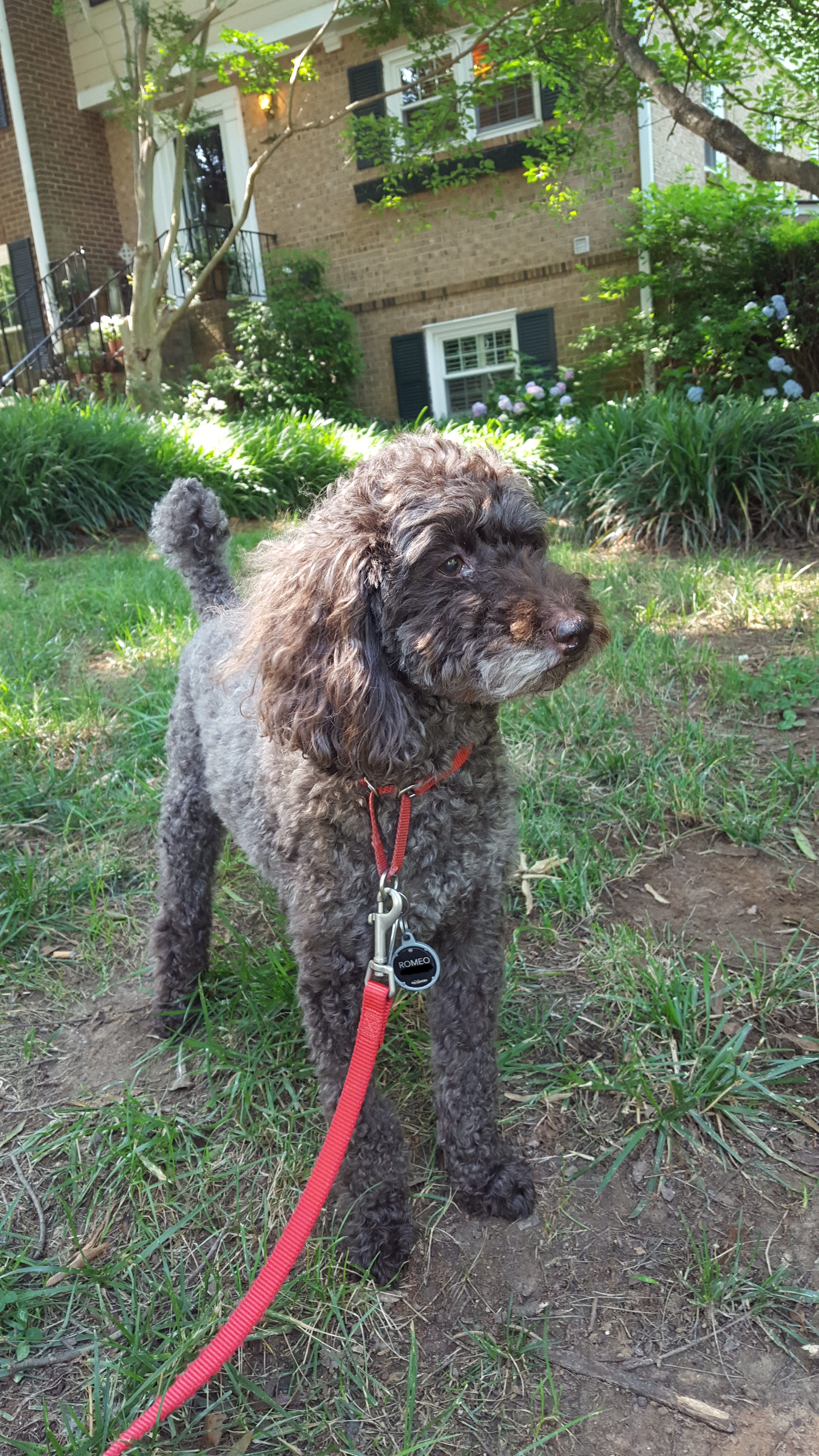 This depicts a chocolate brown mini poodle.